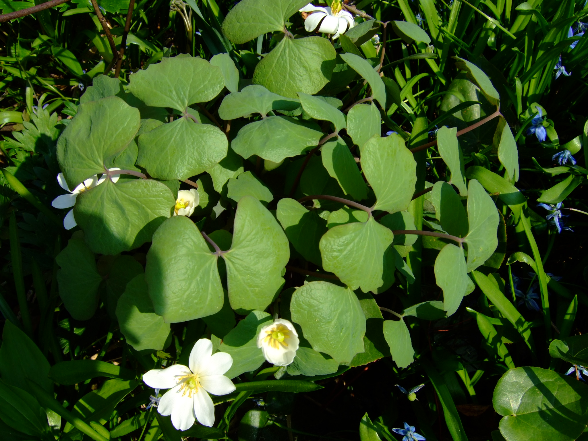 Jeffersonia diphylla flowering in a garden in Madison, Wisconsin.